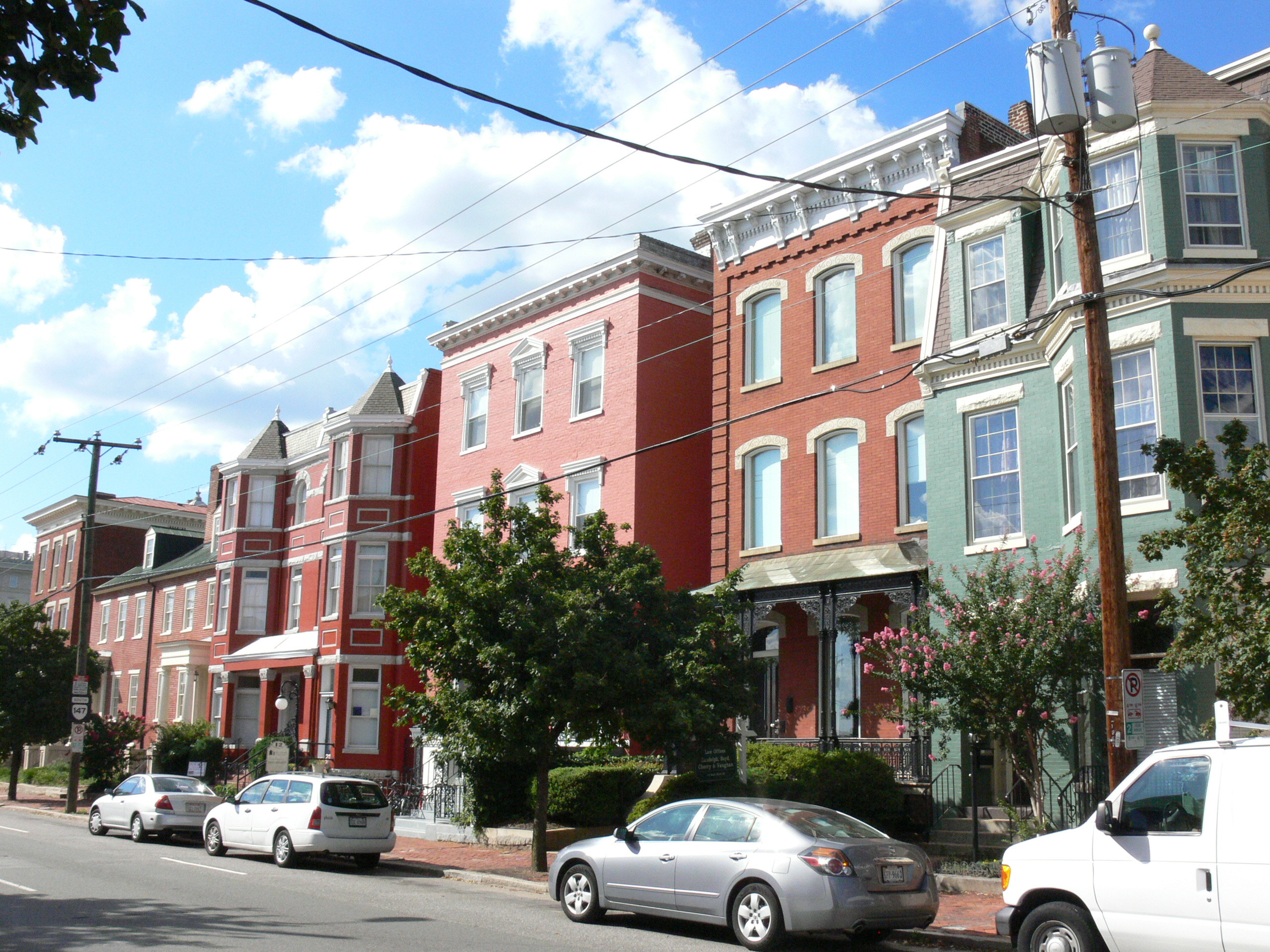 The north 00 Block along E. Main Street in Richmond, Virginia; contributing to two Historic Districts on the National Register of Historic Places